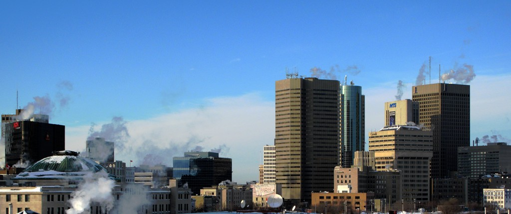 A view of downtown Winnipeg from the Forks